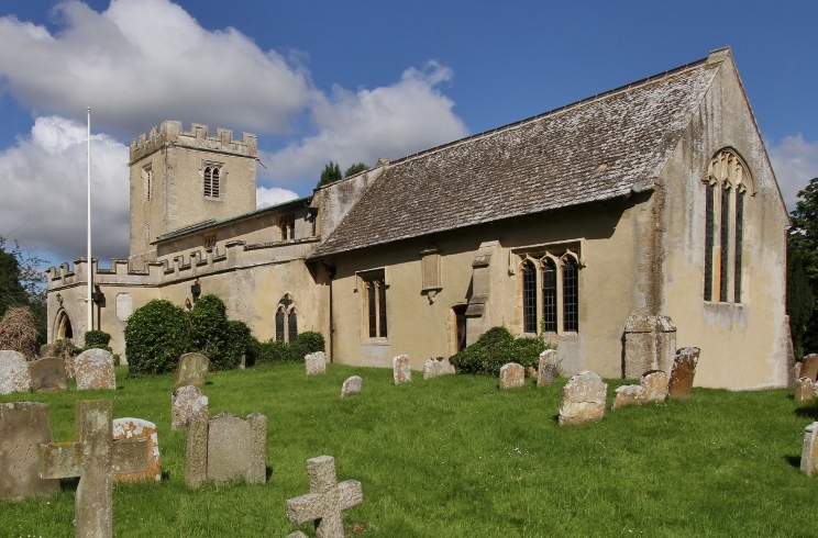 St Mary's parish church, Longworth, Oxfordshire (formerly Berkshire), seen from the southeast